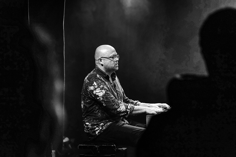 Sigbjørn Apeland at Aarhus Festival, Denmark 2018